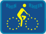 Logo Rhein-Radweg